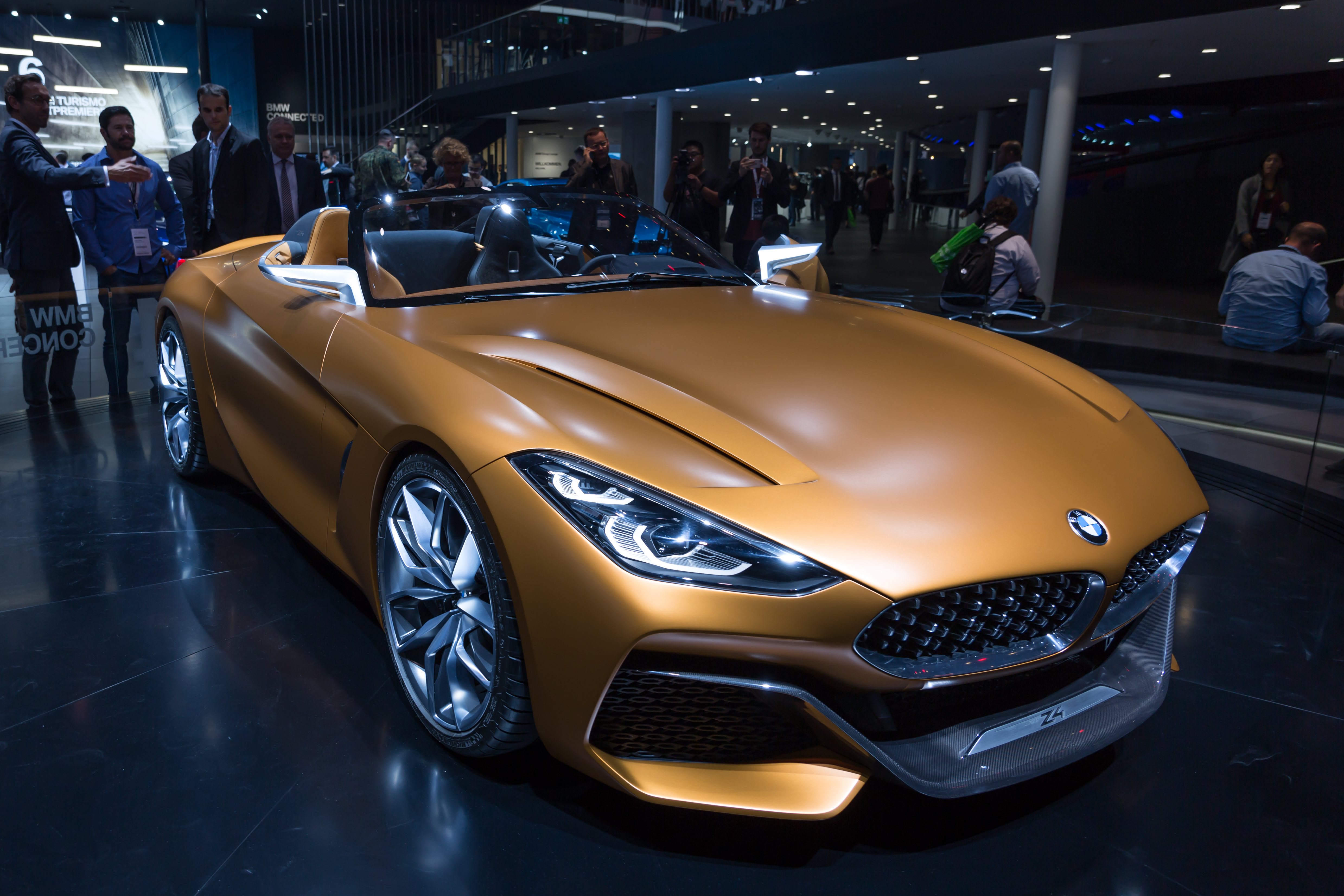 BMW Concept Z4, IAA 2017